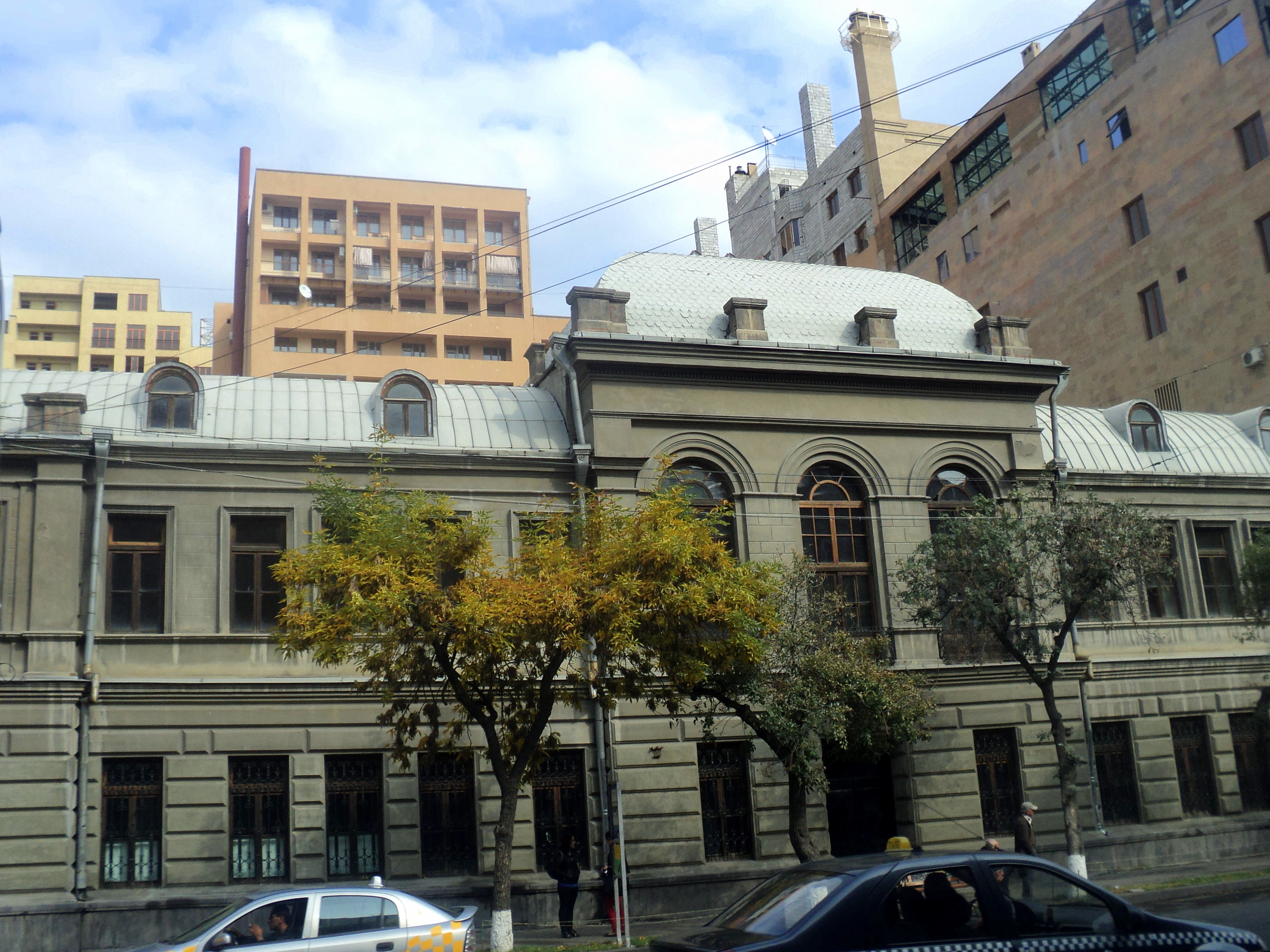 Amiryan Street, Yerevan